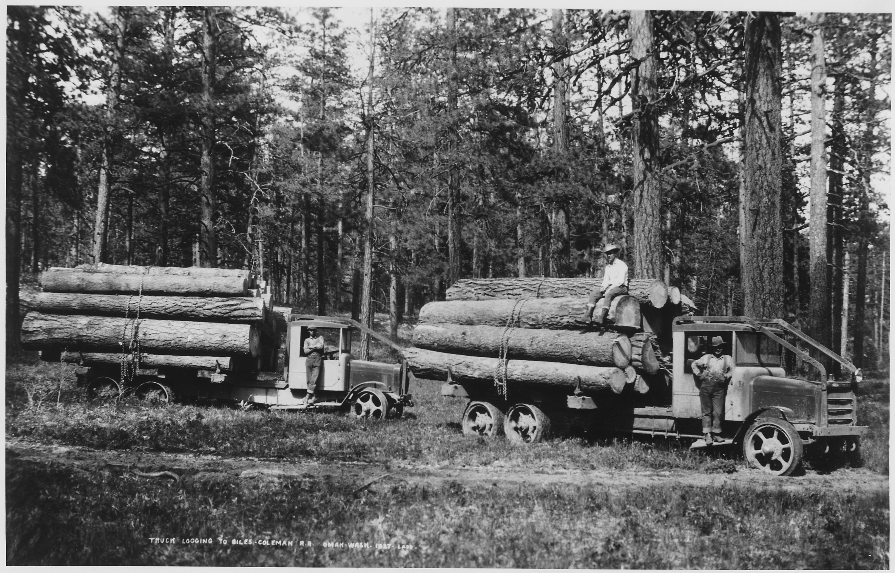 Scope and content: Photographic reports compiled by Harold Weaver illustrate forest management on Indian Reservation forests of Washington and Oregon, mainly on Colville where Weaver was Forest supervisor before becoming Regional Forester in 1960. Ther are a few photos of California and Montana and reports of scientific field trips.